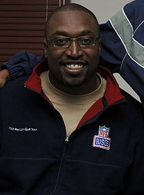 Picture of NFL player Alge Crumpler (Cropped from original File:US Air Force 070312-F-1131H-002 OPERATION IRAQI FREEDOM.jpg)